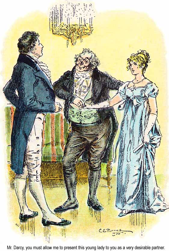 C. E. Brock illustration for the 1895 edition of Jane Austen's novel Pride and Prejudice (Chapter 6)